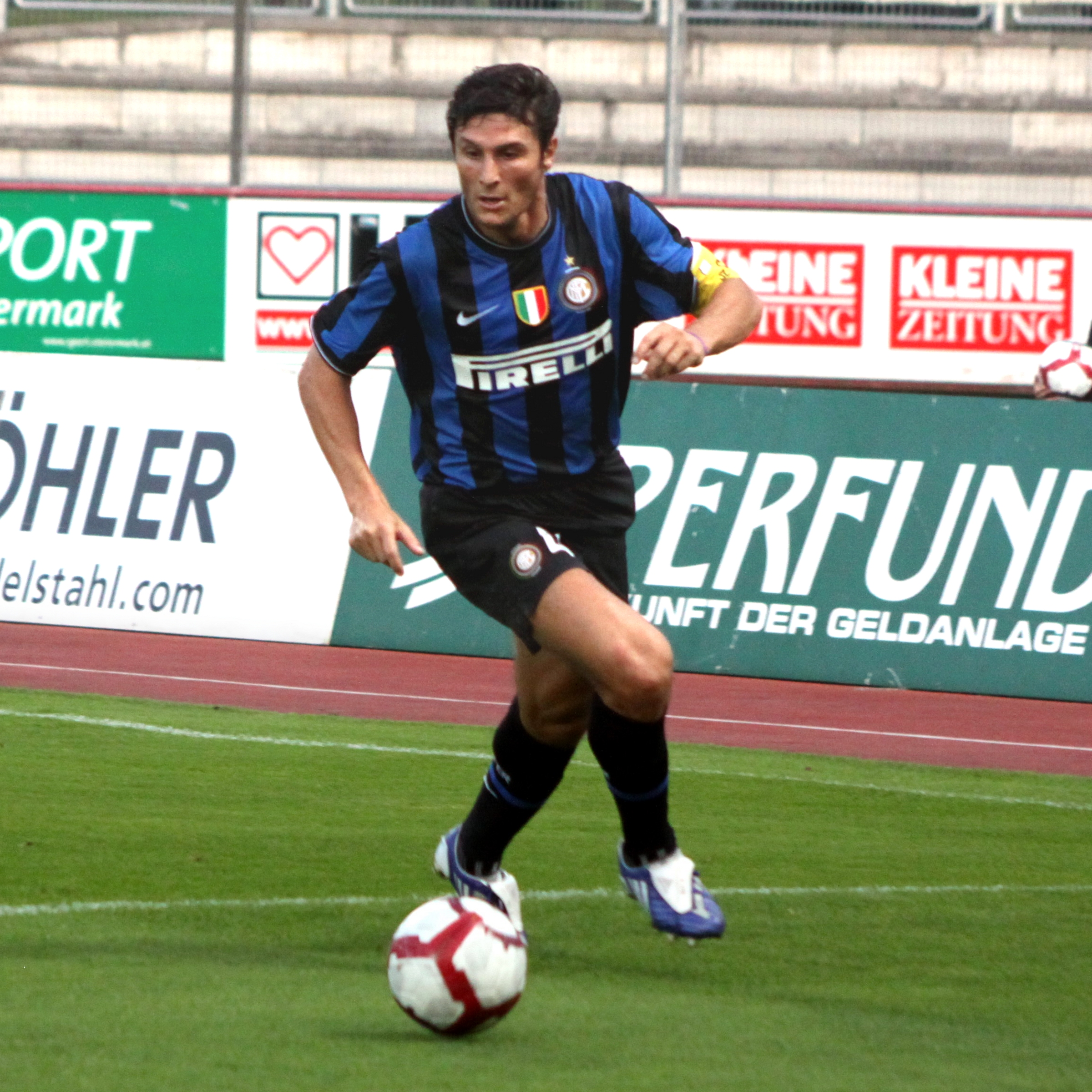 Javier Zanetti - F.C. Internazionale Milano